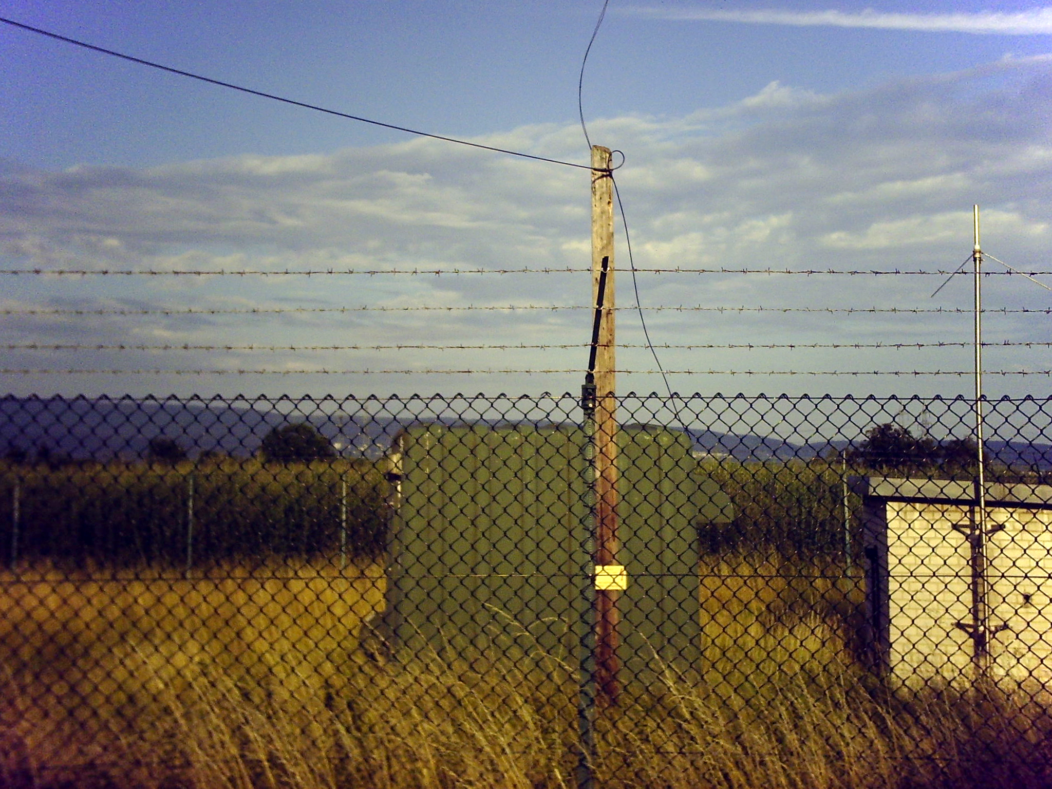 Tuning house of NDB HDL Plankstadt, Germany